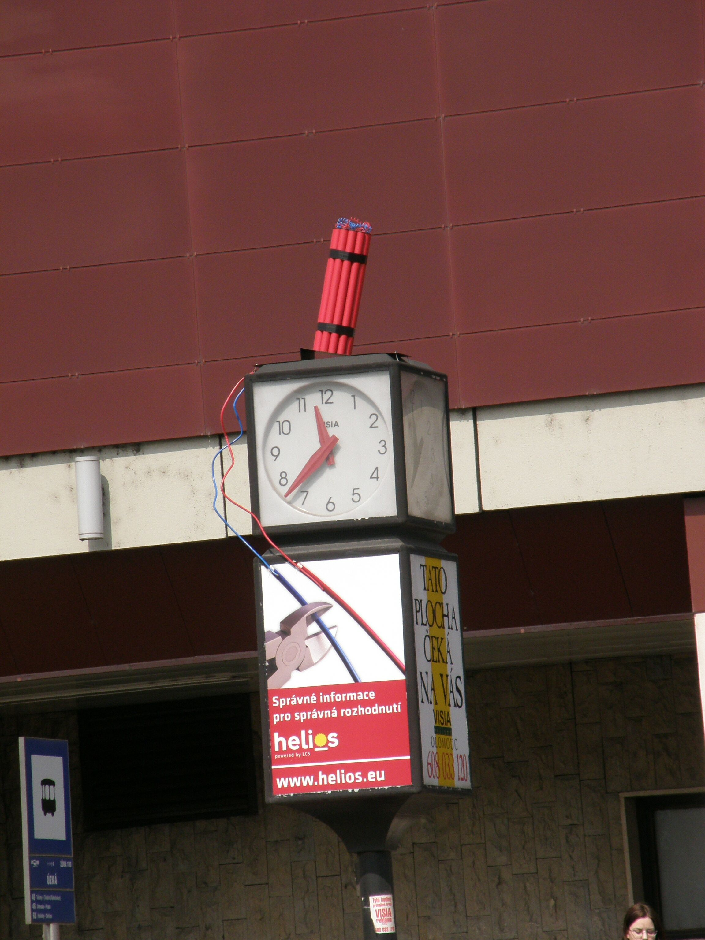 Advertising in Brno